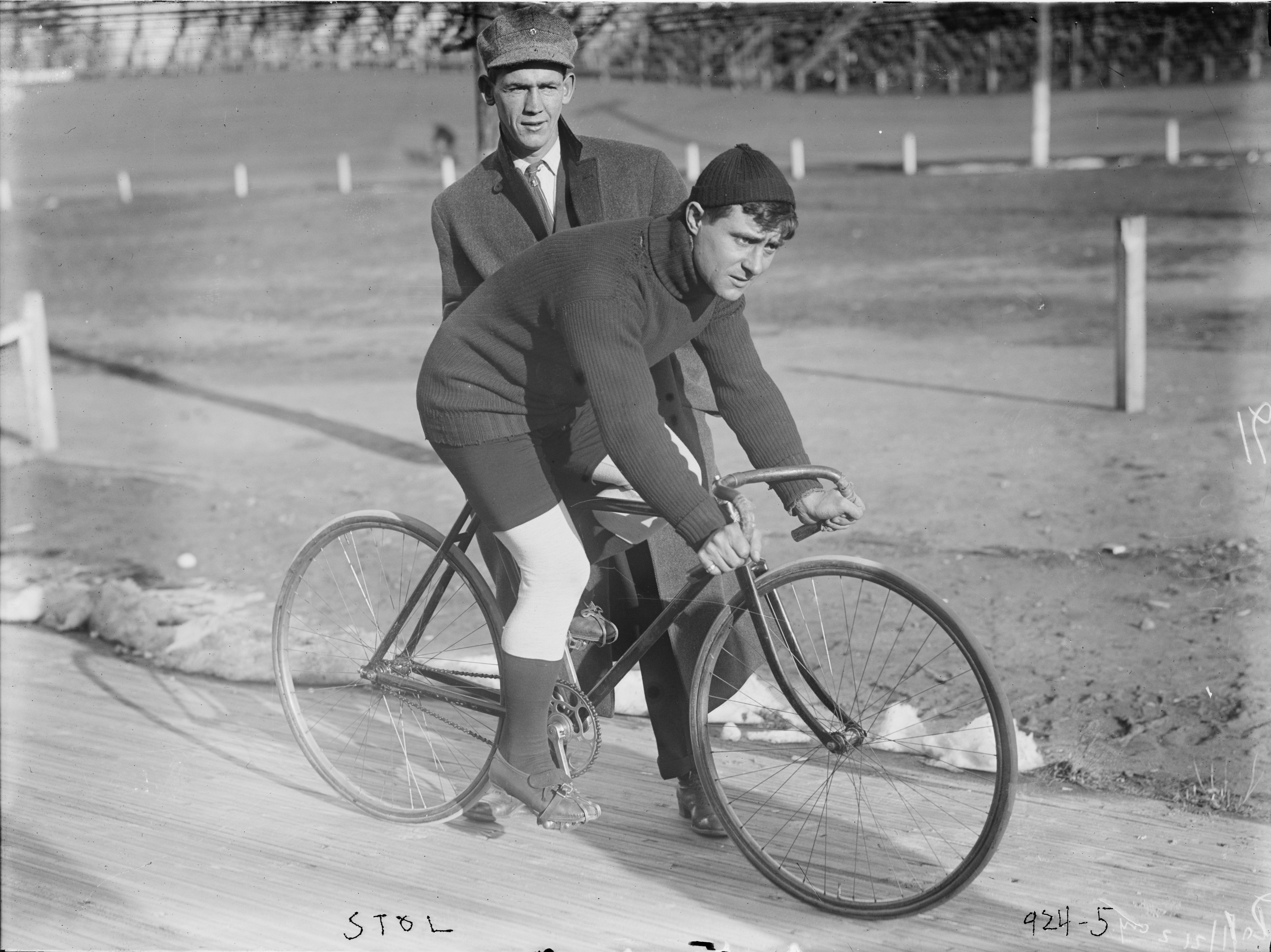 John Stol, Dutch track racer